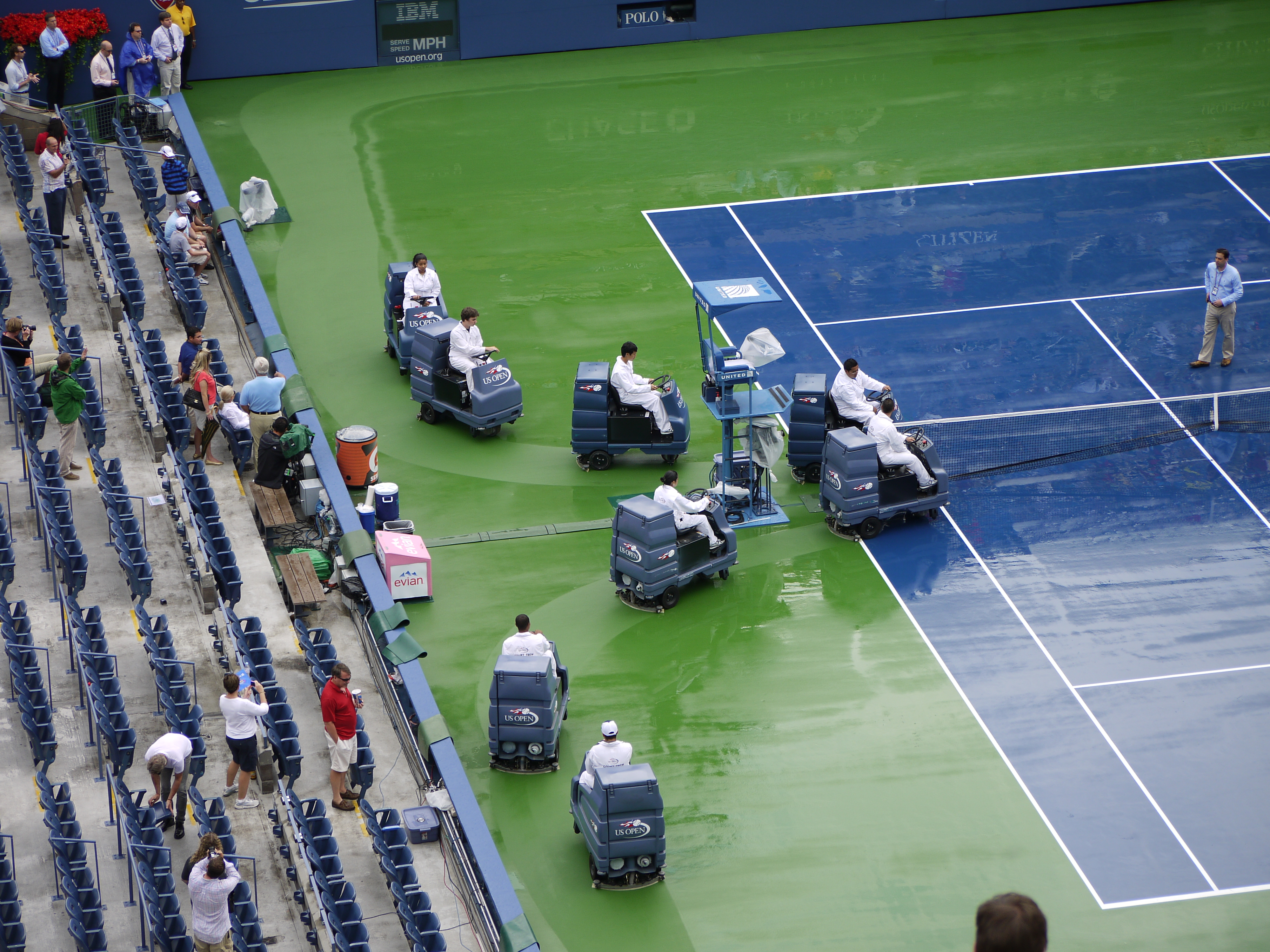 Just as the first match was supposed to start, we got a very brief torrent of rain. On come the drying machines.